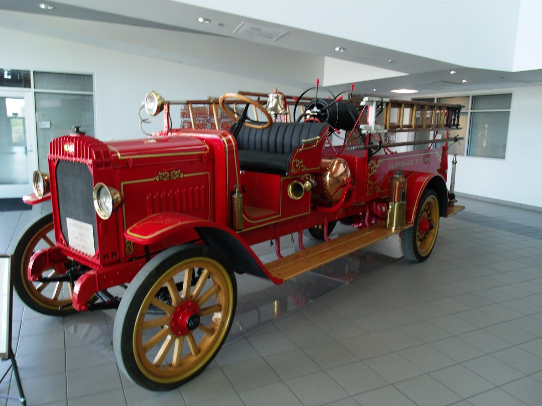 12.This 1917 Nash Fire Truck was the first motorized fire truck of the Glendale Fire Department. It is Model #3017, Truck #98745. Its maximum speed is 16 mph and has a normal freight load capacity of 4000 lbs. The normal weight allowance is 1500 lbs. and the normal weight of the chassis is 3850 lbs. The truck was manufactured by the “Nash Motors Company” and is on exhibit at the Glendale Training Center located at 11330 W. Glendale Ave. in Glendale , Arizona.